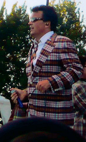 Dicky Barrett of the band The Mighty Mighty Bosstones, in concert.